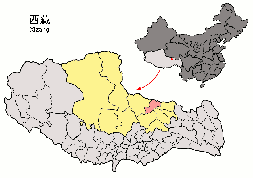 Location of Nyainrong County (pink) and Nagchu Prefecture (yellow) within Tibet (Xizang) autonomous region of China